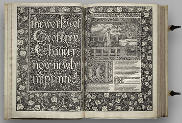 Page spread from Kelmscott Chaucer. Book was printed in 1896 by Kelmscott Press.